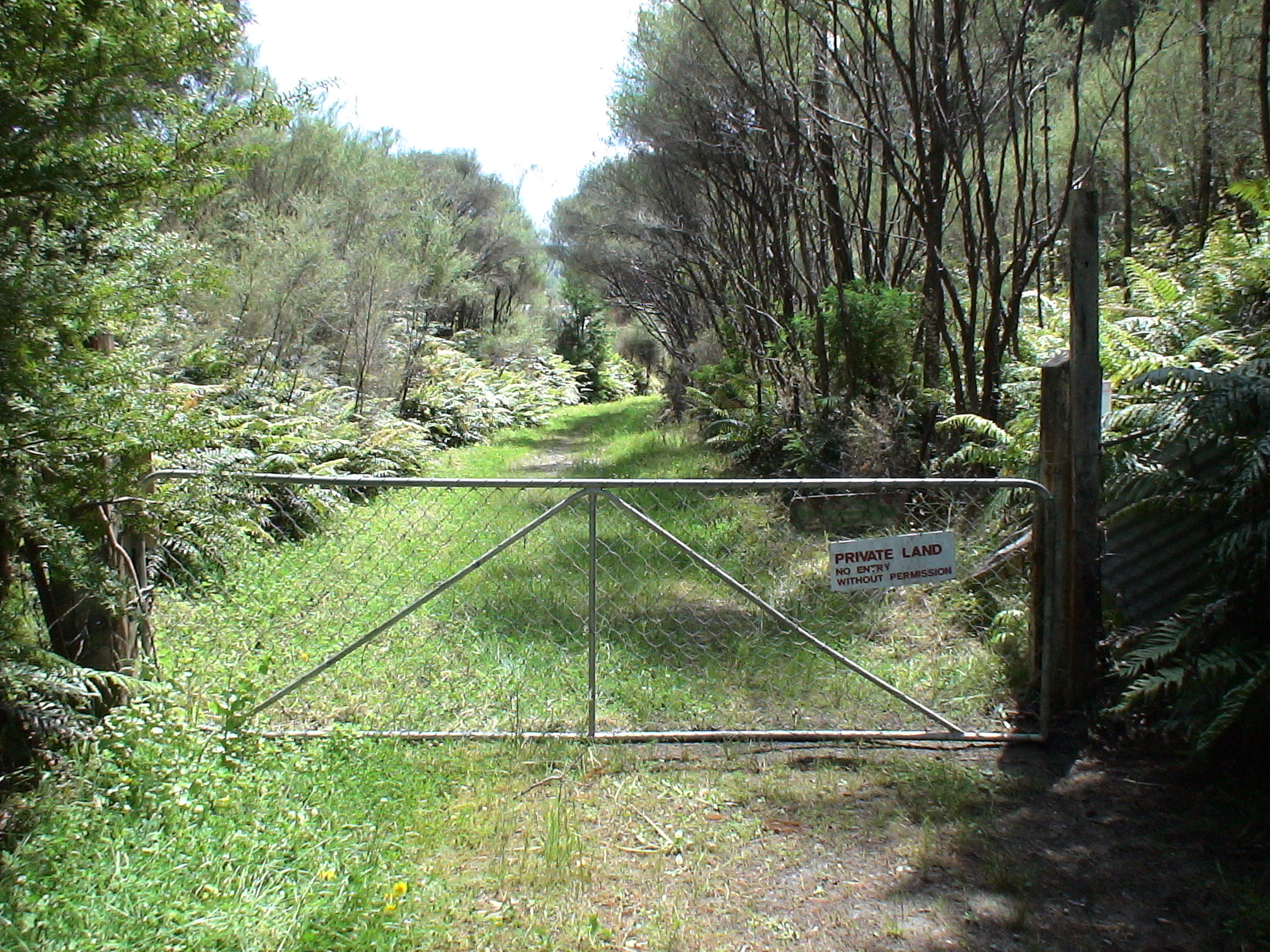 The gate on the southern approach to Kaitoke station that marks the end of public access and the boundary of private property that now includes the Kaitoke station yard. Photographed by Matthew25187 on 2007-12-29.